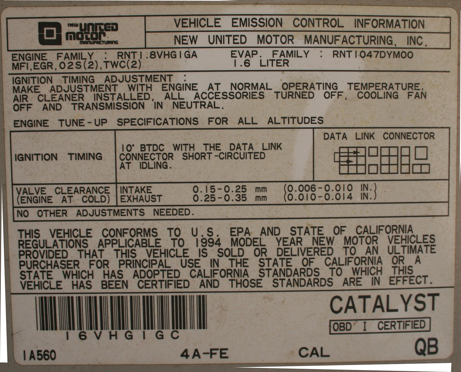 Under the hood stick from a 1994 Geo Prizm LSi.